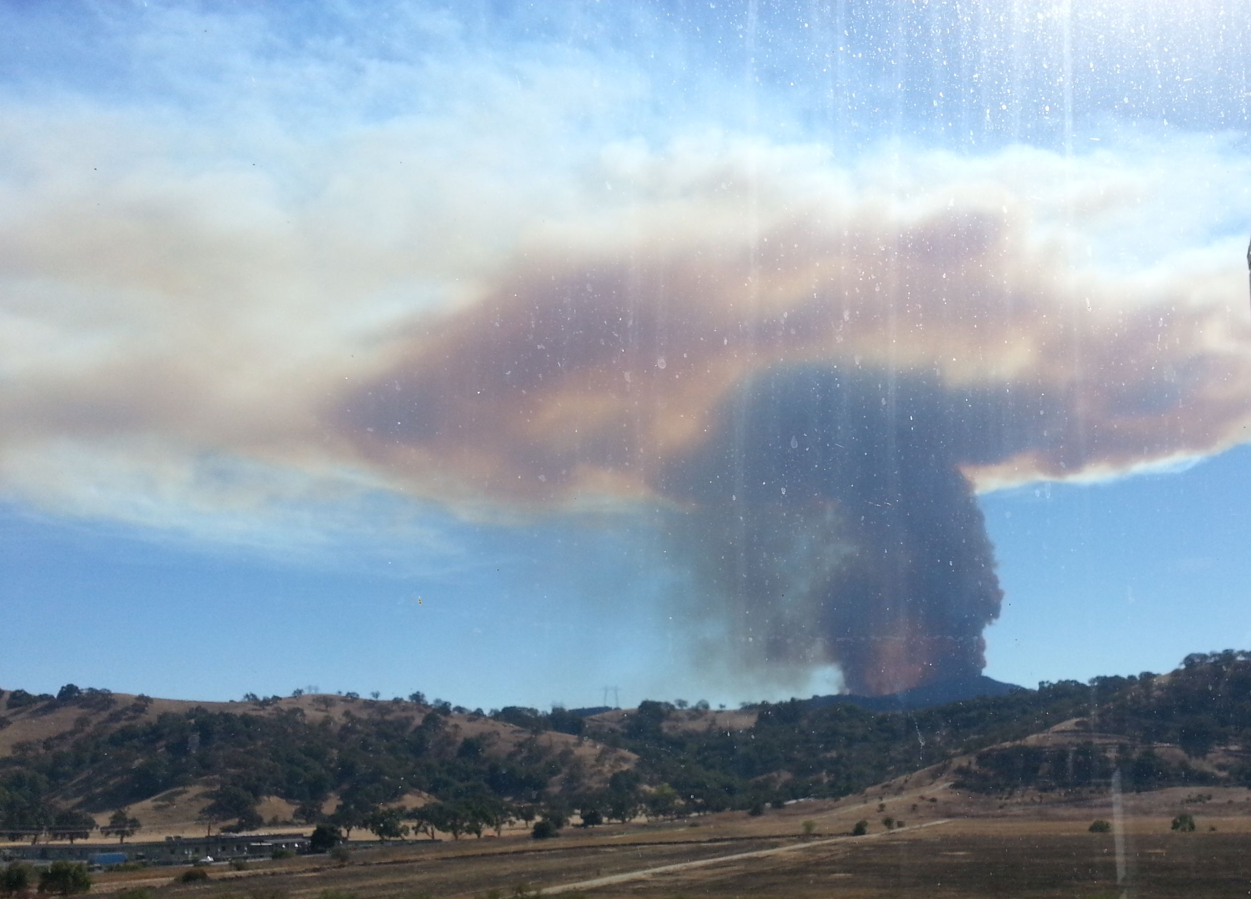 Loma Fire, approximately 30 minutes after the start of the fire, seen from Bailey Avenue, San Jose at a distance of approximately nine miles.